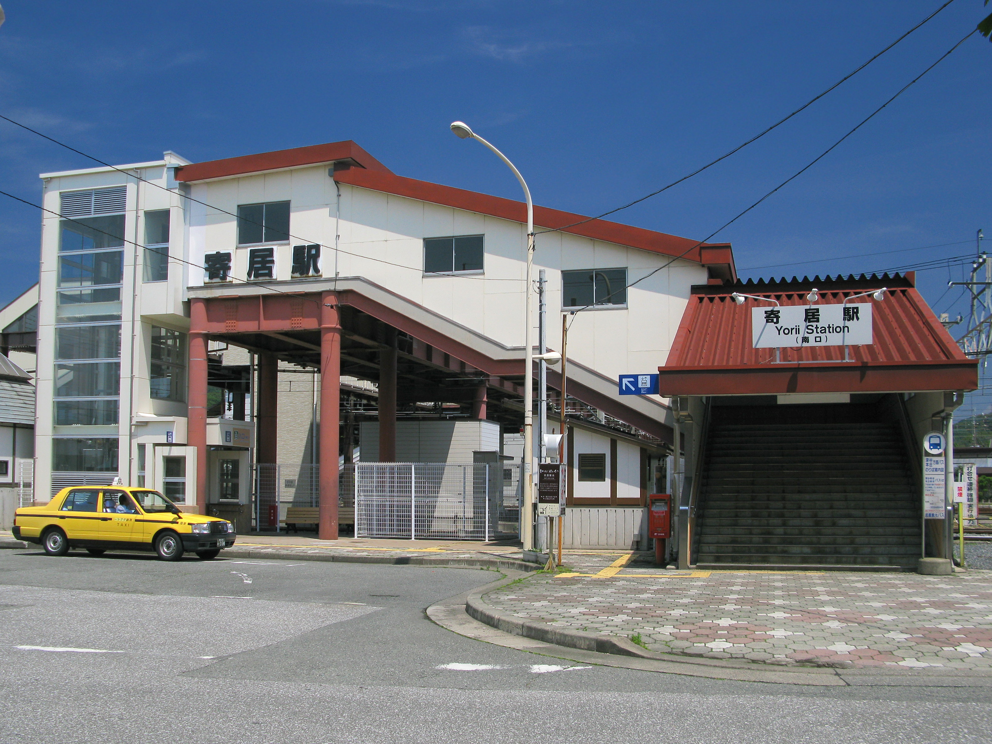 South entrance of Yorii Station in Saitama Prefecture, Japan